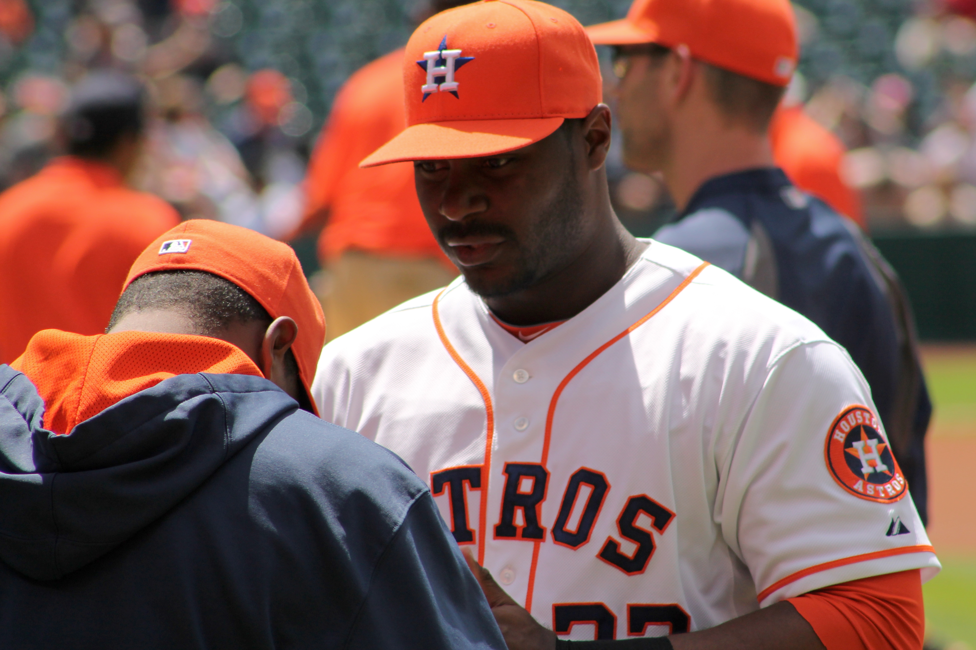 Houston Astros player Chris Carter in Houston during a May 2014 game.